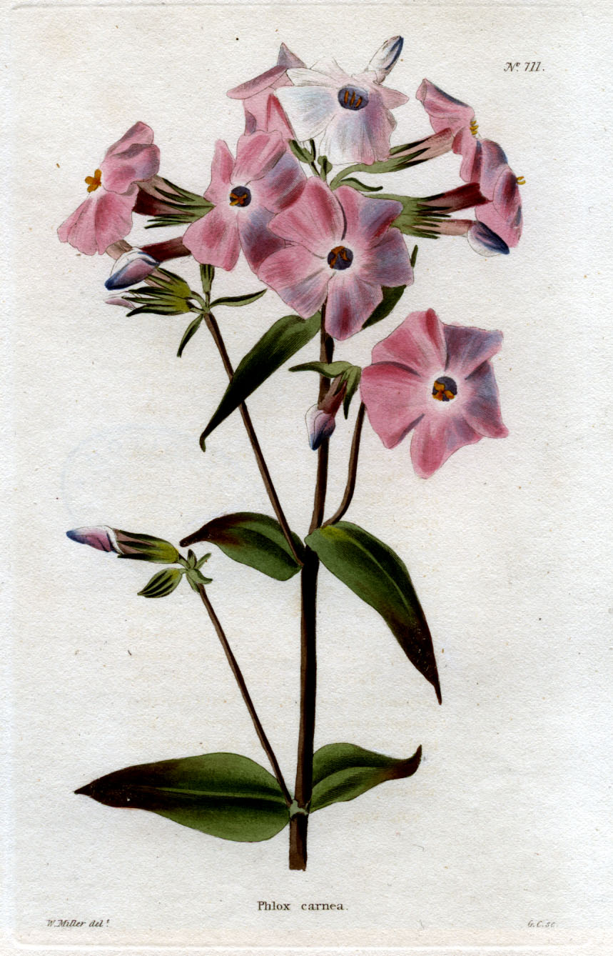 Phlox carnea (Loddiges 111) drawing by William Miller engraved by G Cooke, published in The Botanical Cabinet Consisting of Coloured Delineations of Plants from all countries. Plates by George Cooke. Conrad Loddiges. London: John & Arthur Arch, 1818